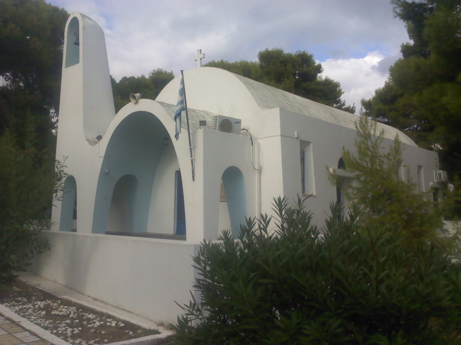 Churche Metamorfosi Sotira Zoumperi